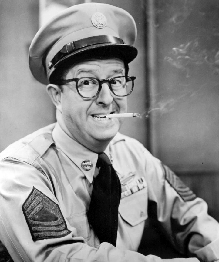 Publicity photo of Phil Silvers as Ernie Bilko in the television show You'll Never Get Rich.